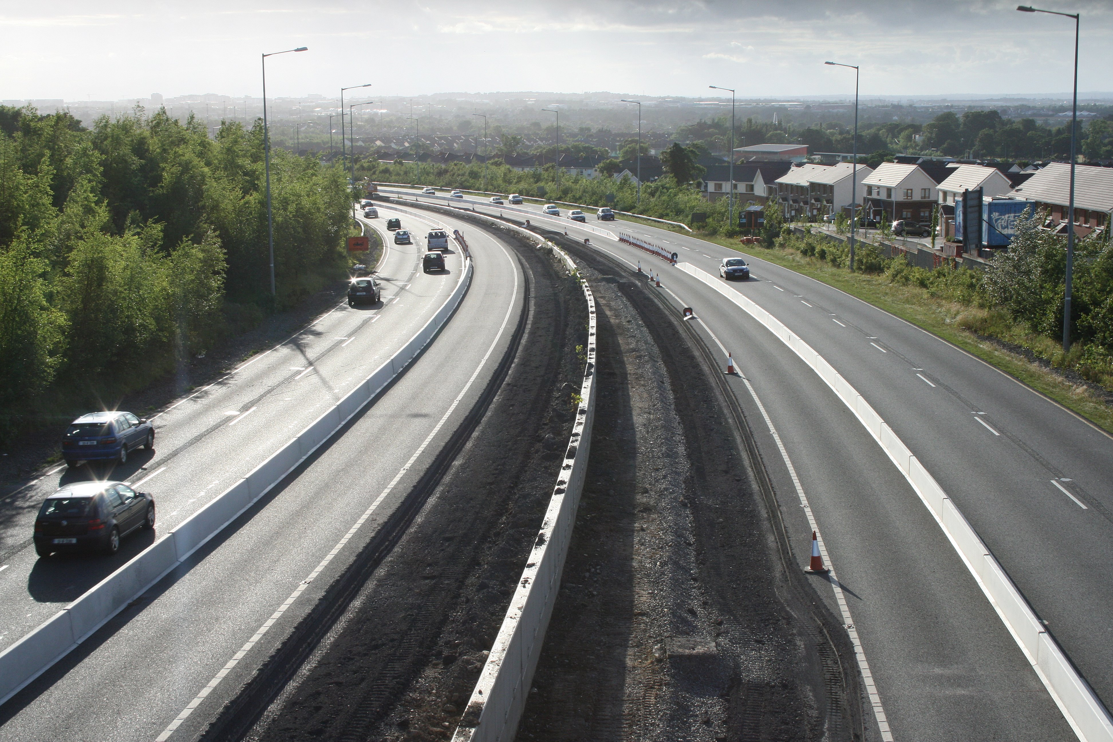 M50 widening from Stocking Lane overbridge looking West (northbound).